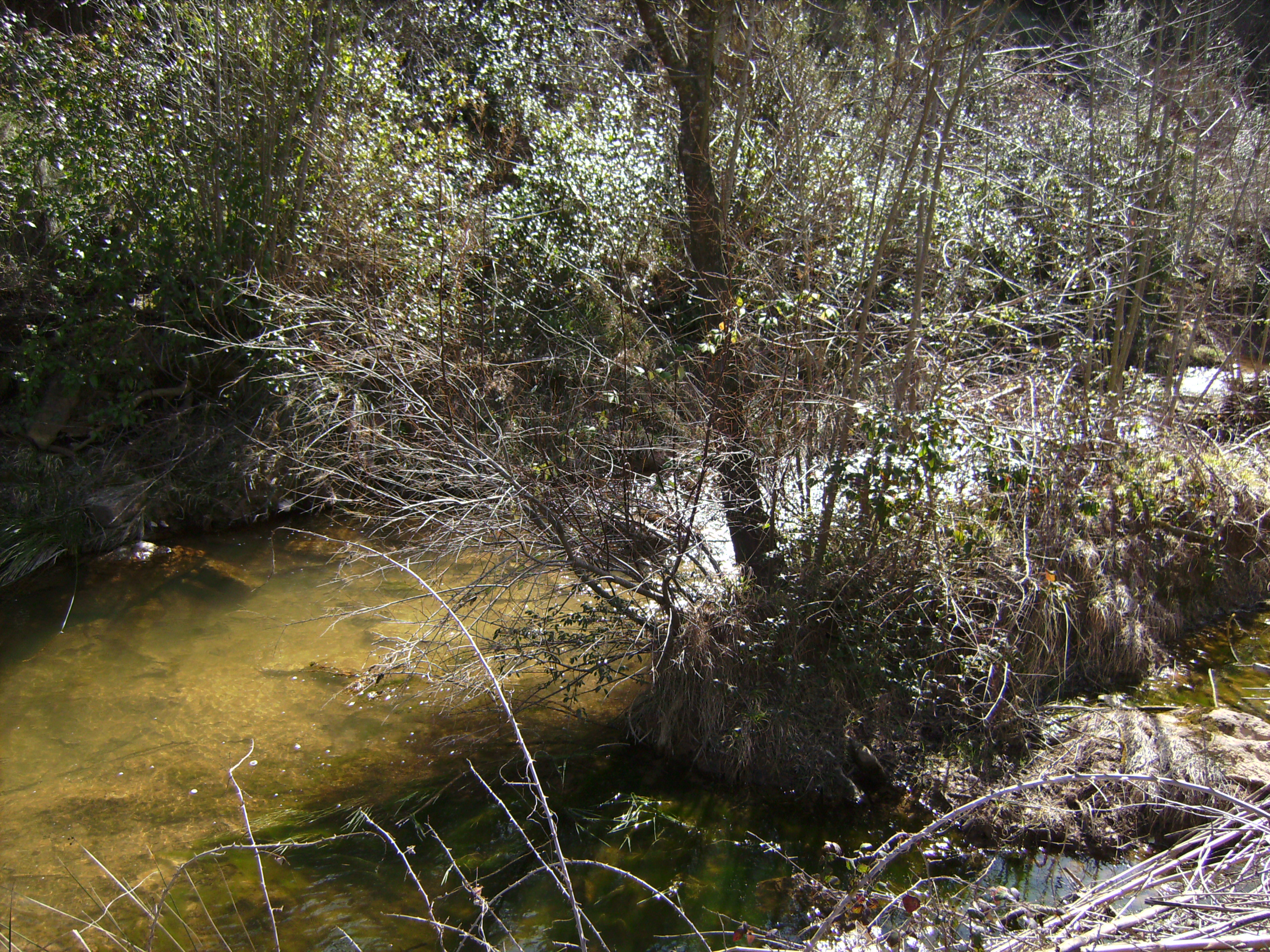 Little river in Rajadell town (Catalonia)